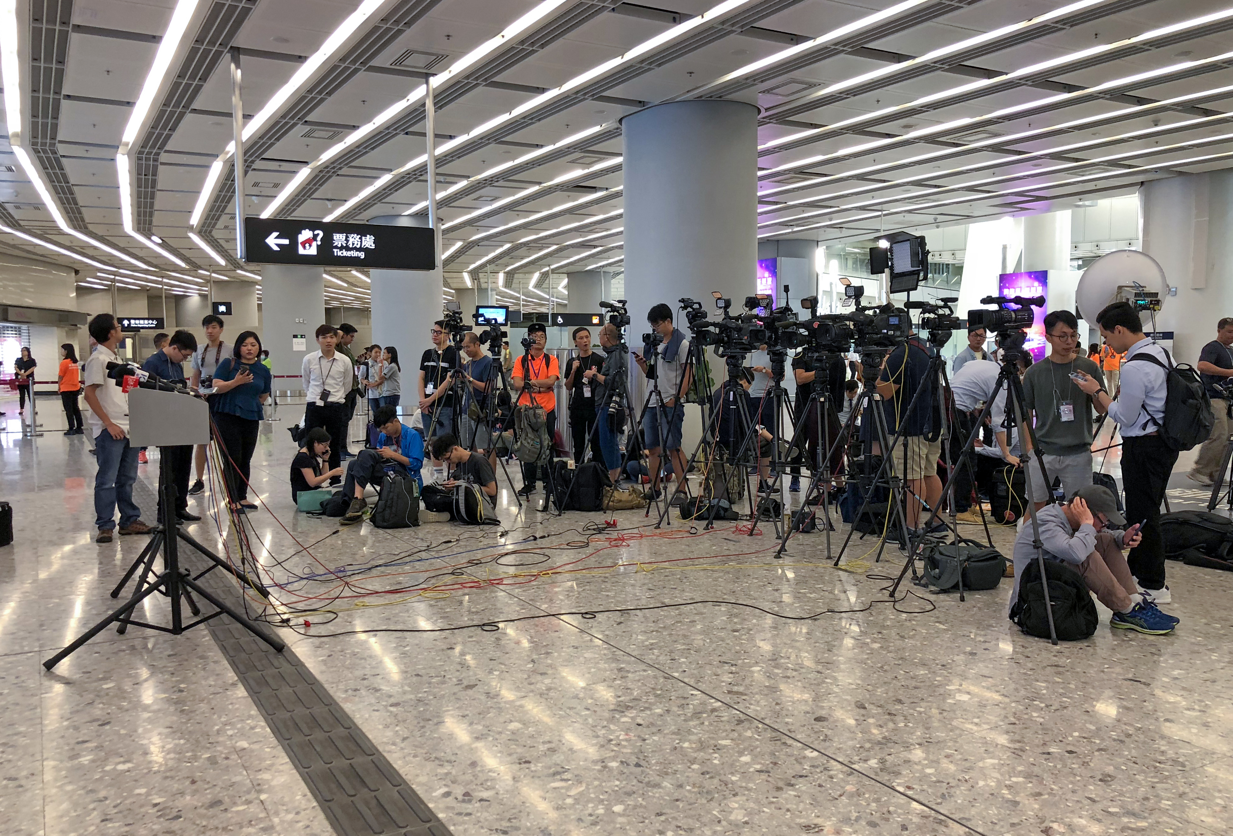 Here are the "outstanding runners" and their television cameras.